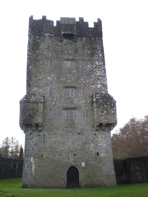 Built by the O'Flahertys c. 1500, Aughnanure Castle lies near the village of Oughterard in picturesque surroundings close to the shores of Lough Corrib.